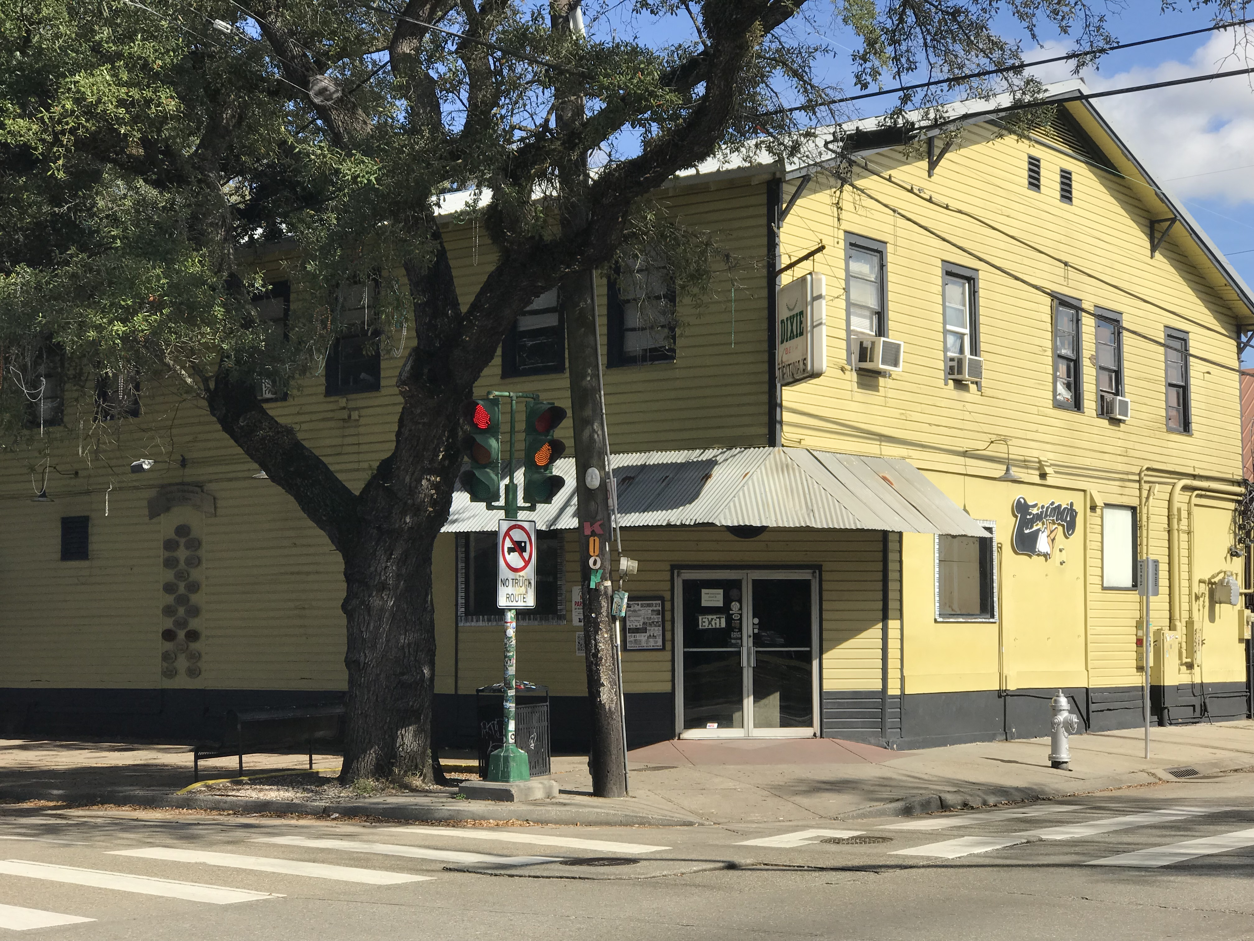 Tipitina's Exterior 2019